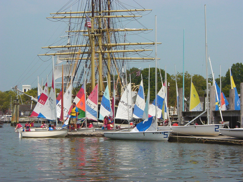 Young people learn to sail at Mystic Seaport. #2 and 5 are JY 14s, the single sailed craft are Dyer Dhows. Image August 2002 by User:Leonard G.